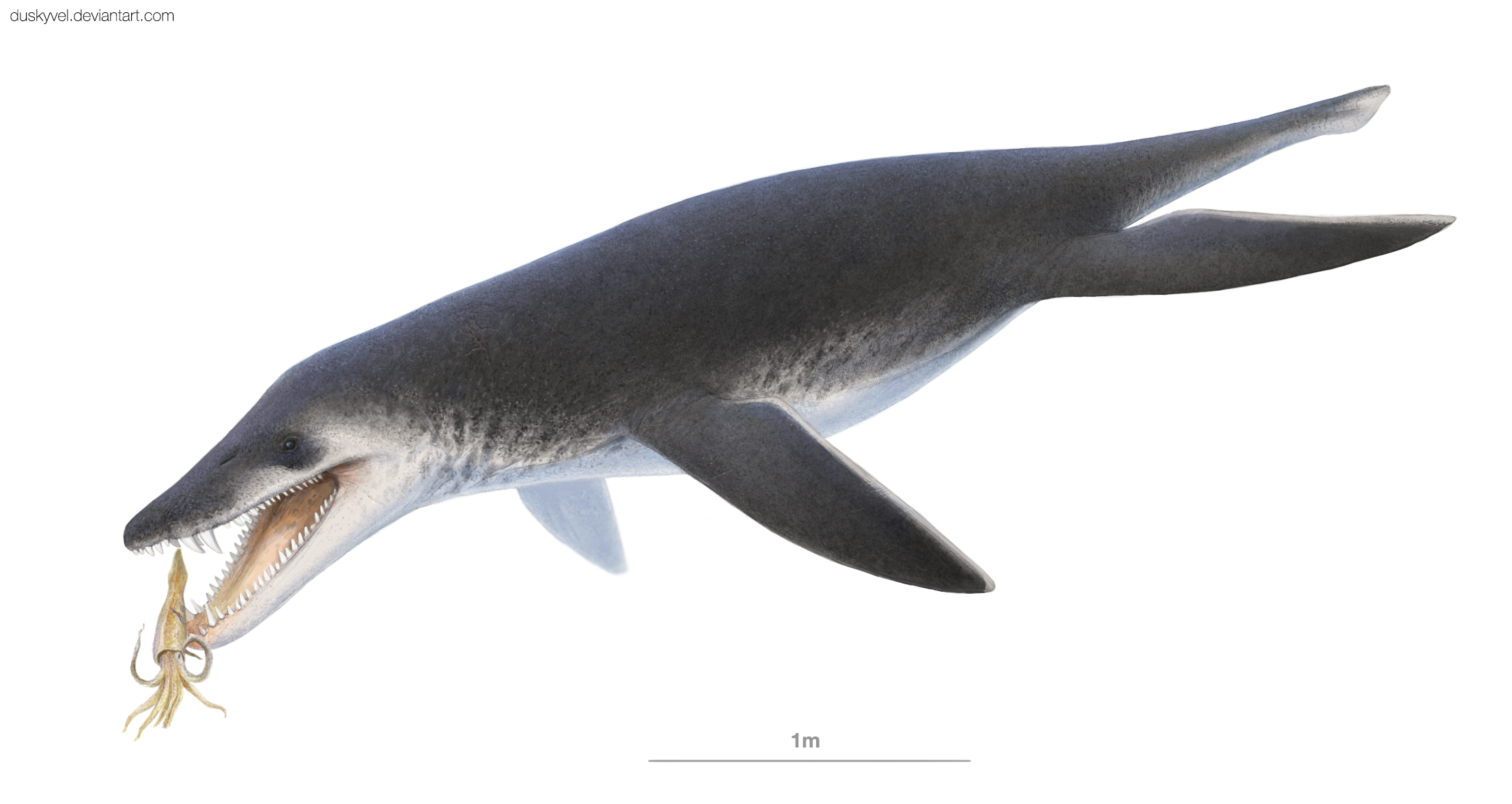 Acostasaurus reconstruction by DuskyVel on deviantart